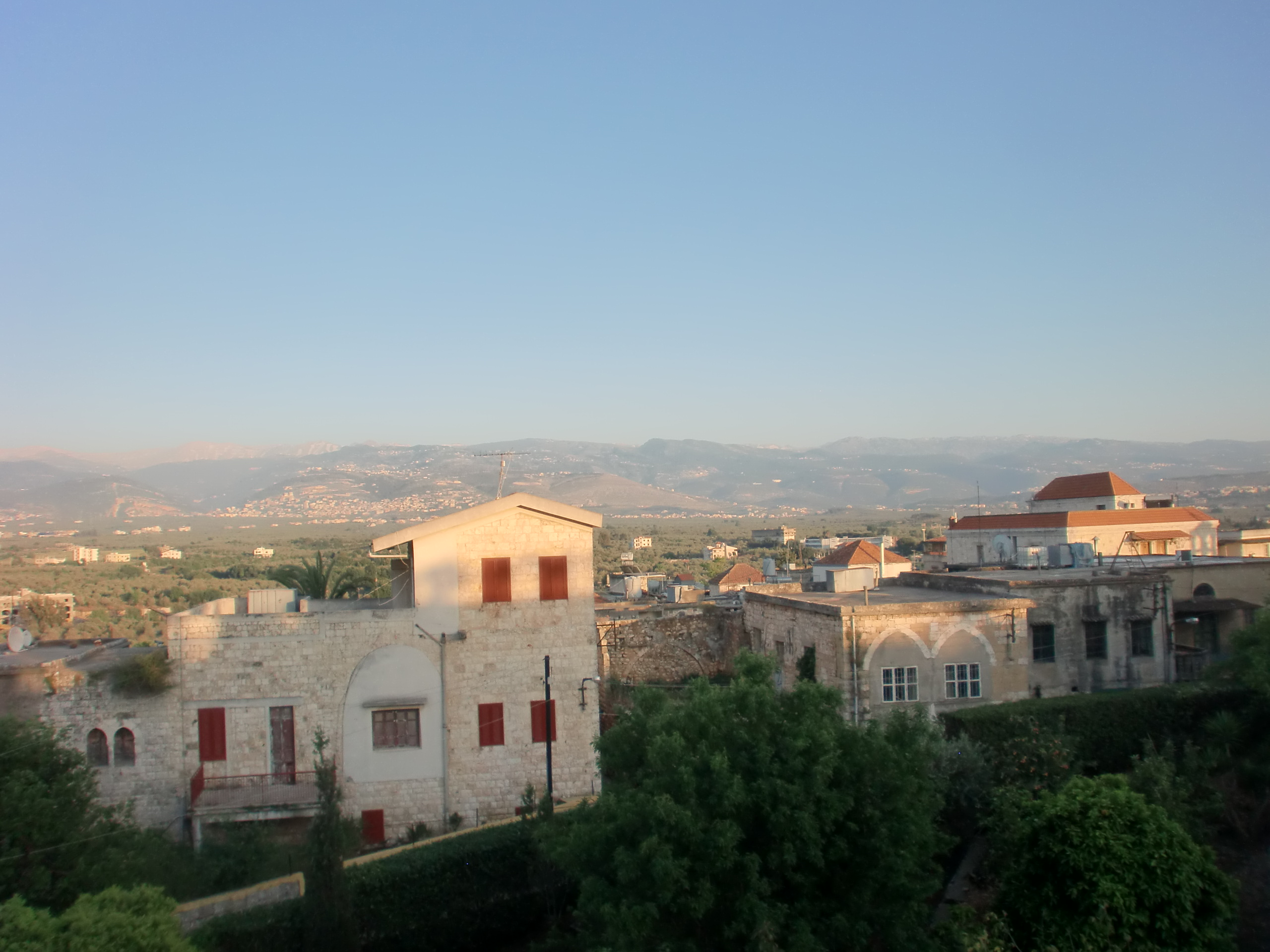 Taken inside Bterram overlooking the white mountains